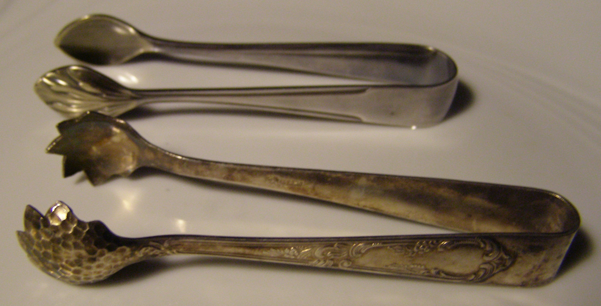 Two pairs of sugar tongs (for lump sugar)